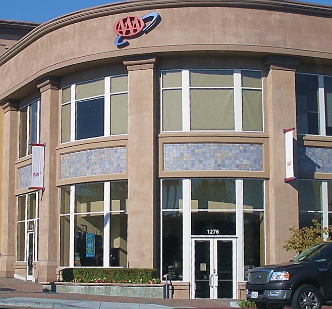 Exterior view of an American Automobile Association office in Walnut Creek, California.